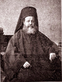 Patriarch Germanus V of Constantinople